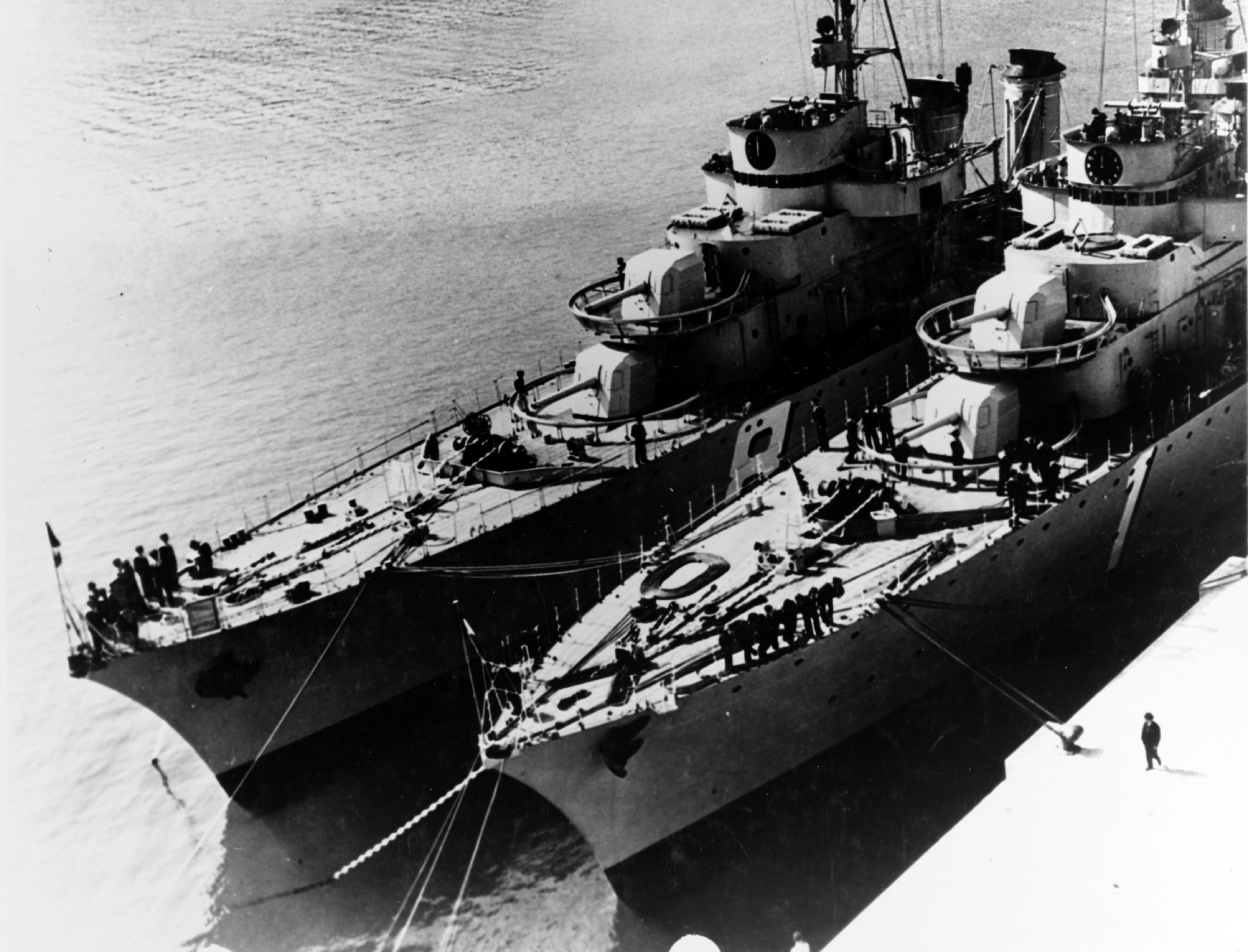 The French destroyers Vauquelin and Tartu docked about 1935